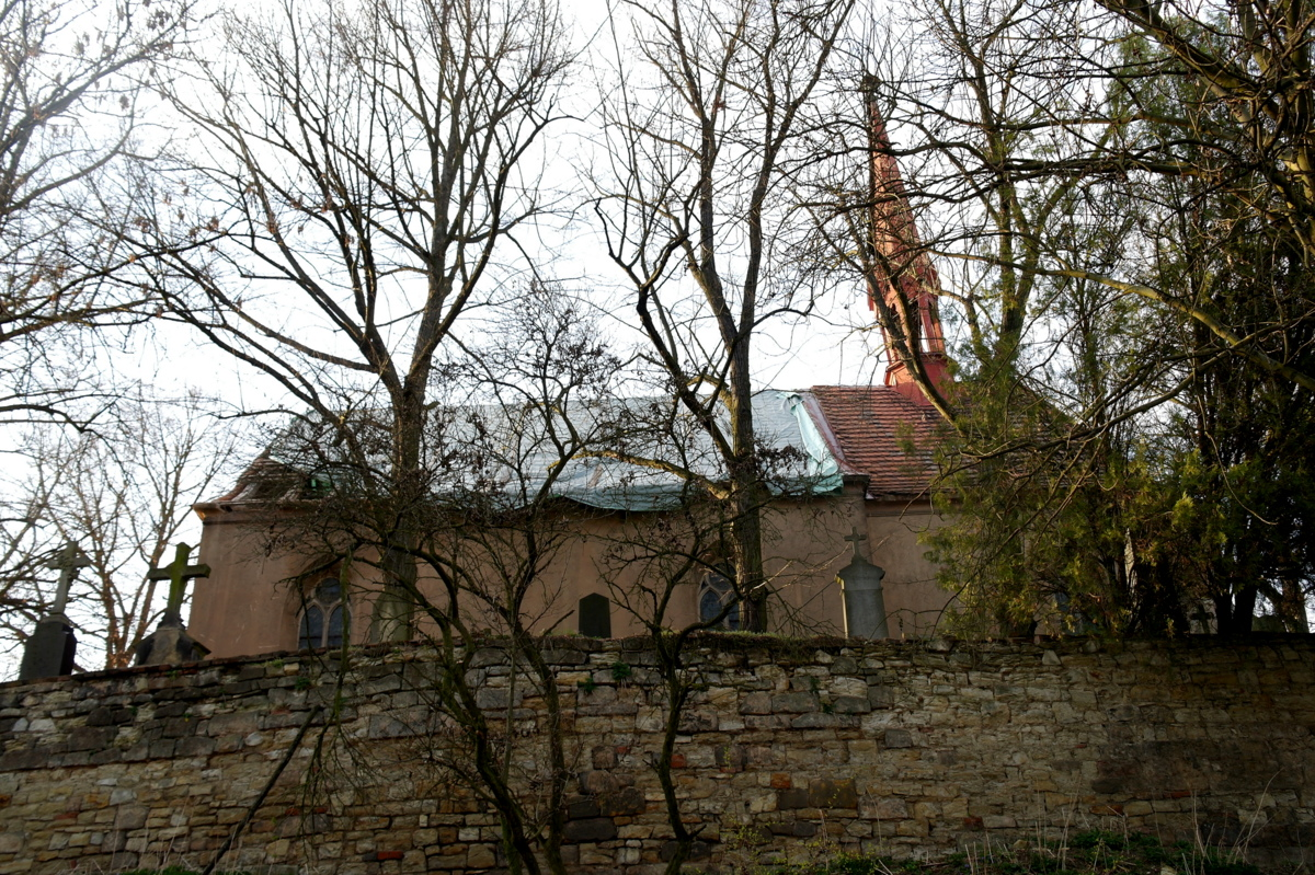 Church of St. James the Greater, Otruby (Slaný), Kladno District. View from the southeast.